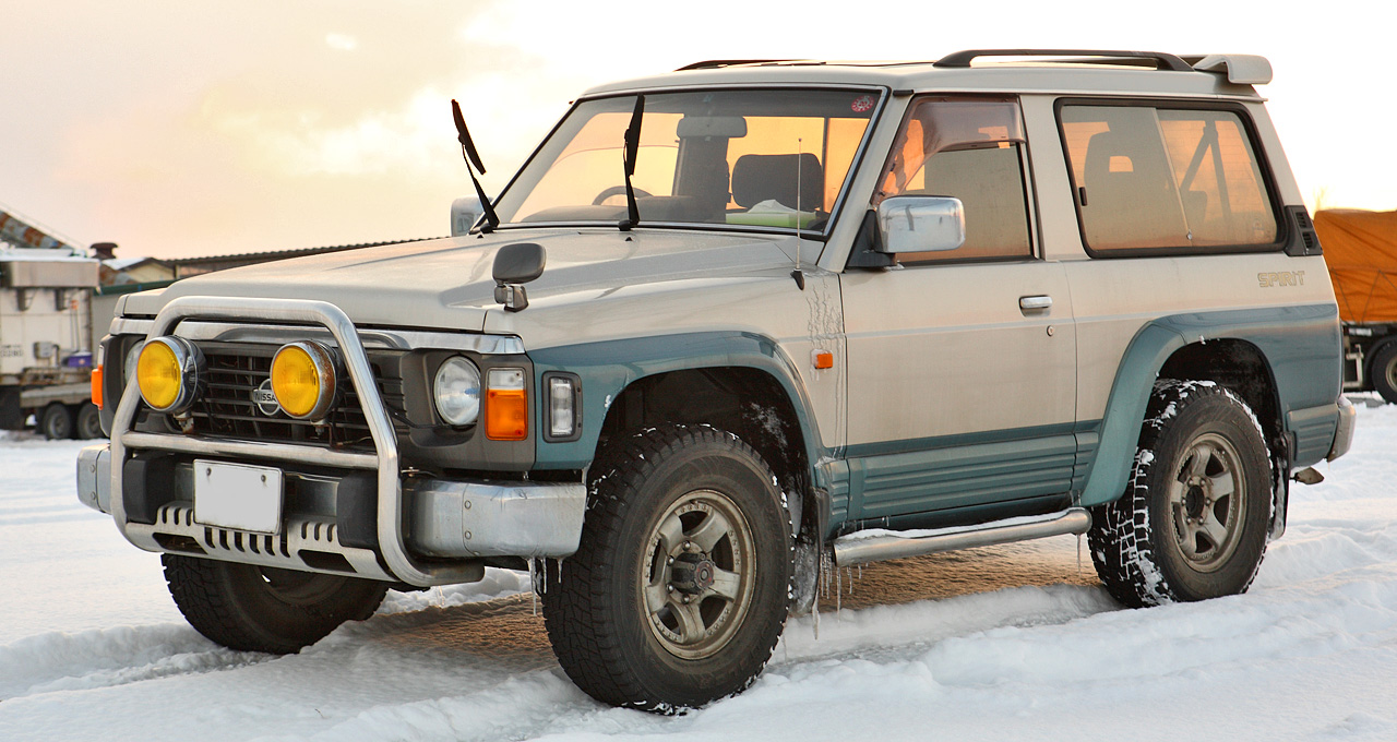 Nissan Safari 2 door hardtop Spirit Type II 2.8TD ( WYY60 )